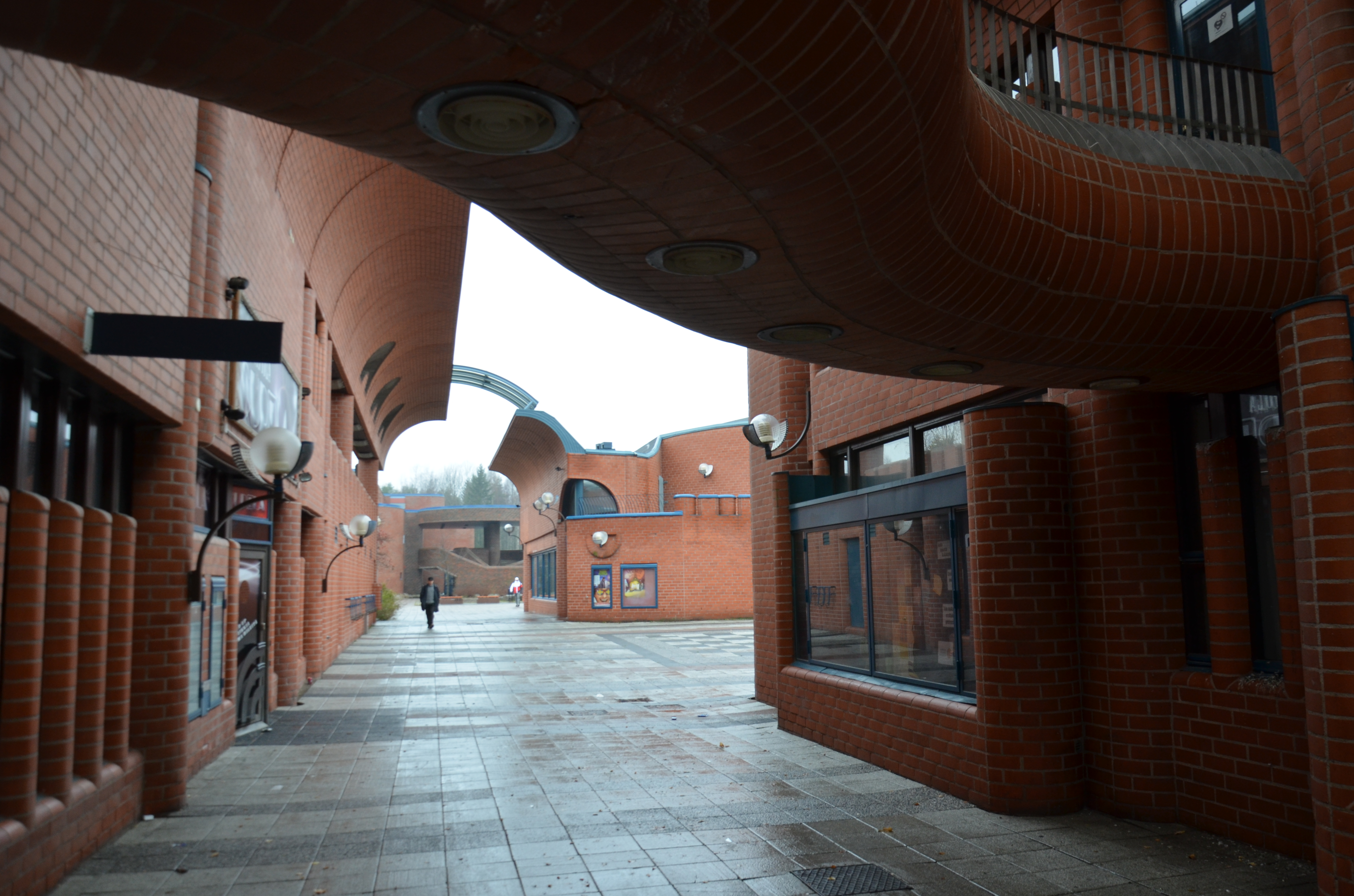 Hervanta centre, Tampere